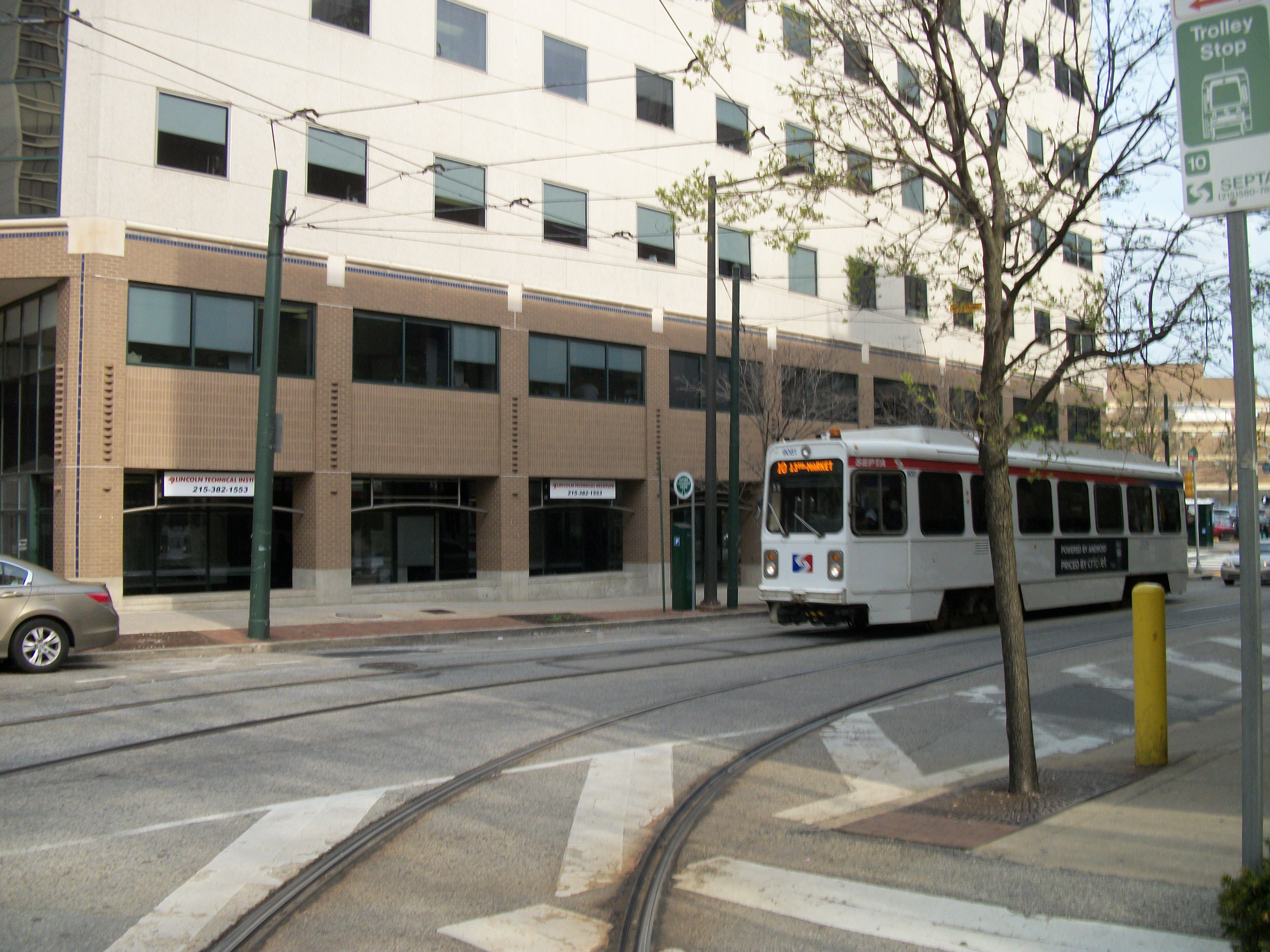 A SEPTA Route 10 Trolley on 36th Street in Philadelphia Center City, just before it is about to enter the 36th Street Portal.